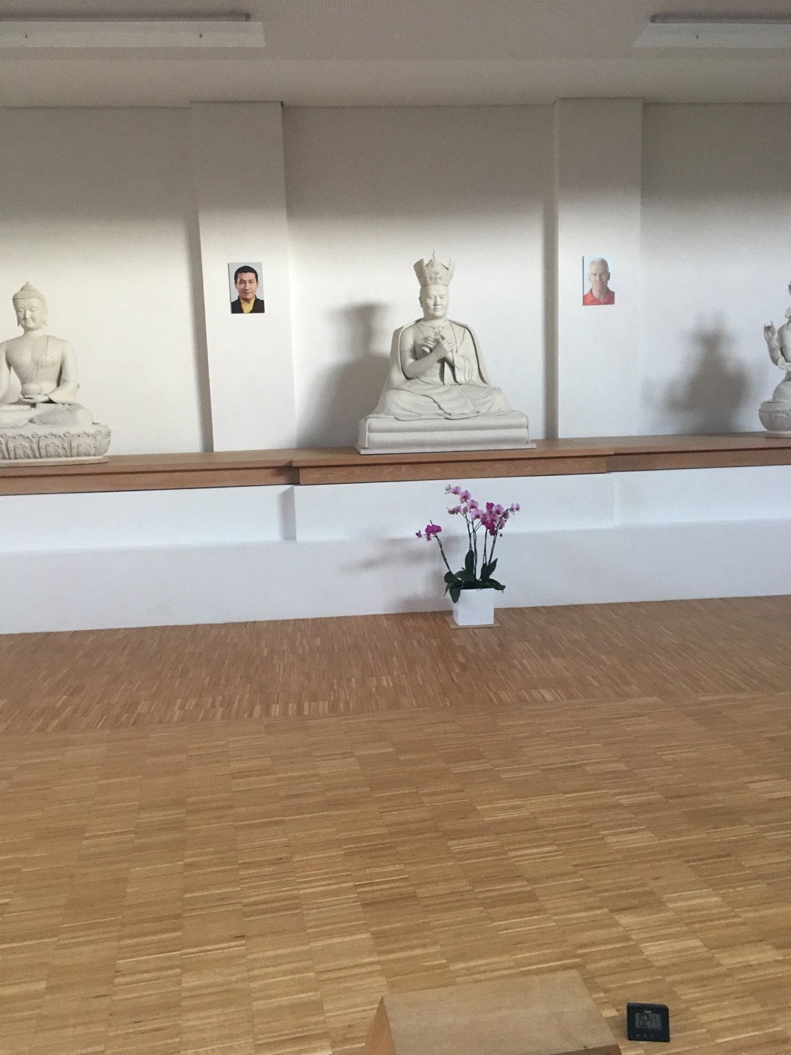 The Gompa of the Buddha-Fabrik in Braunschweig